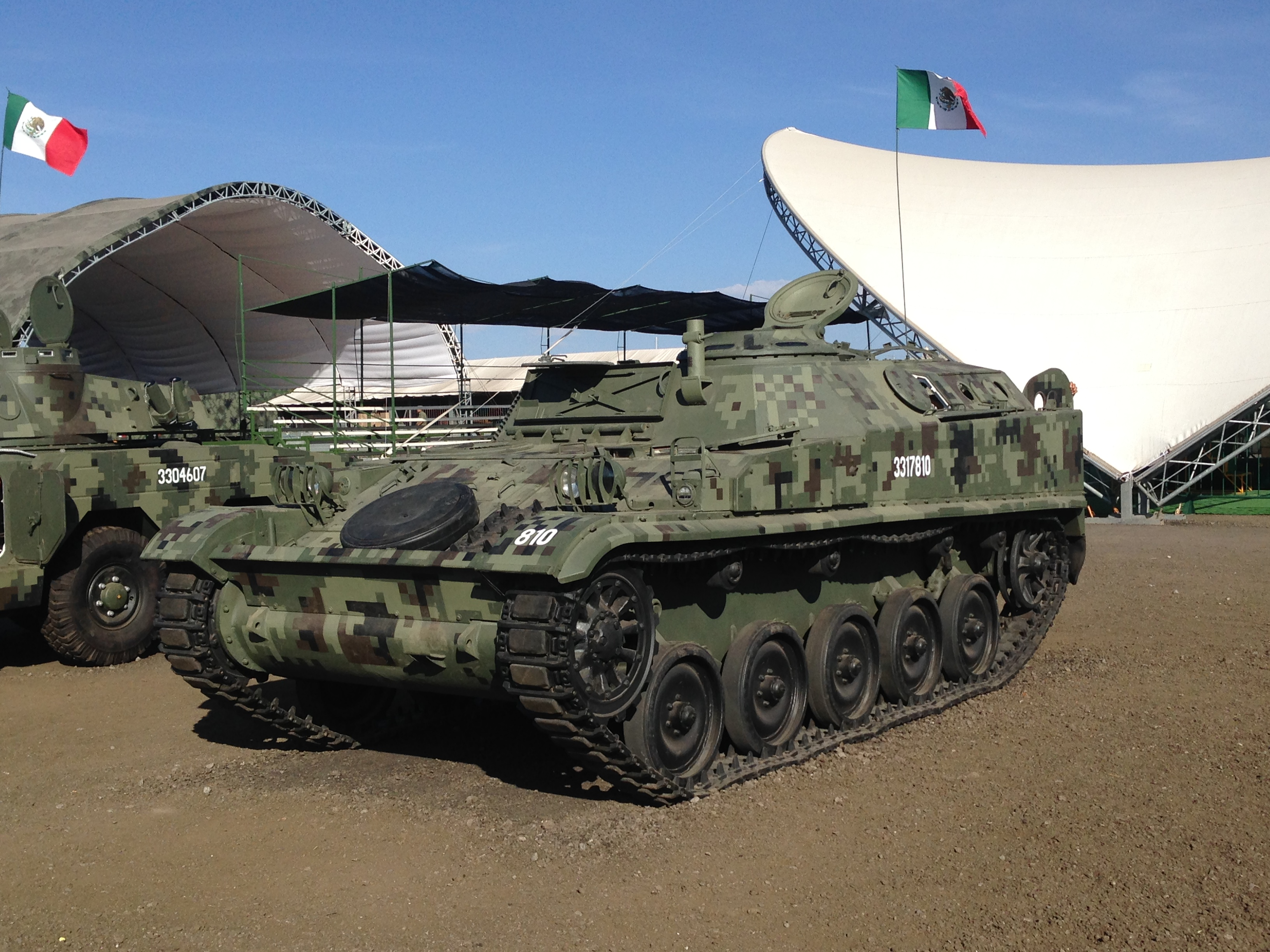 An AMX-VCI owned by the Mexican Army on a temporary show in Queretaro. In Mexico it goes under the name of DNC-1.